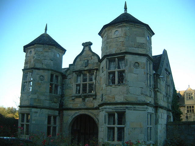 Madeley Court. Plenty of information about Madeley Court (now a hotel) here